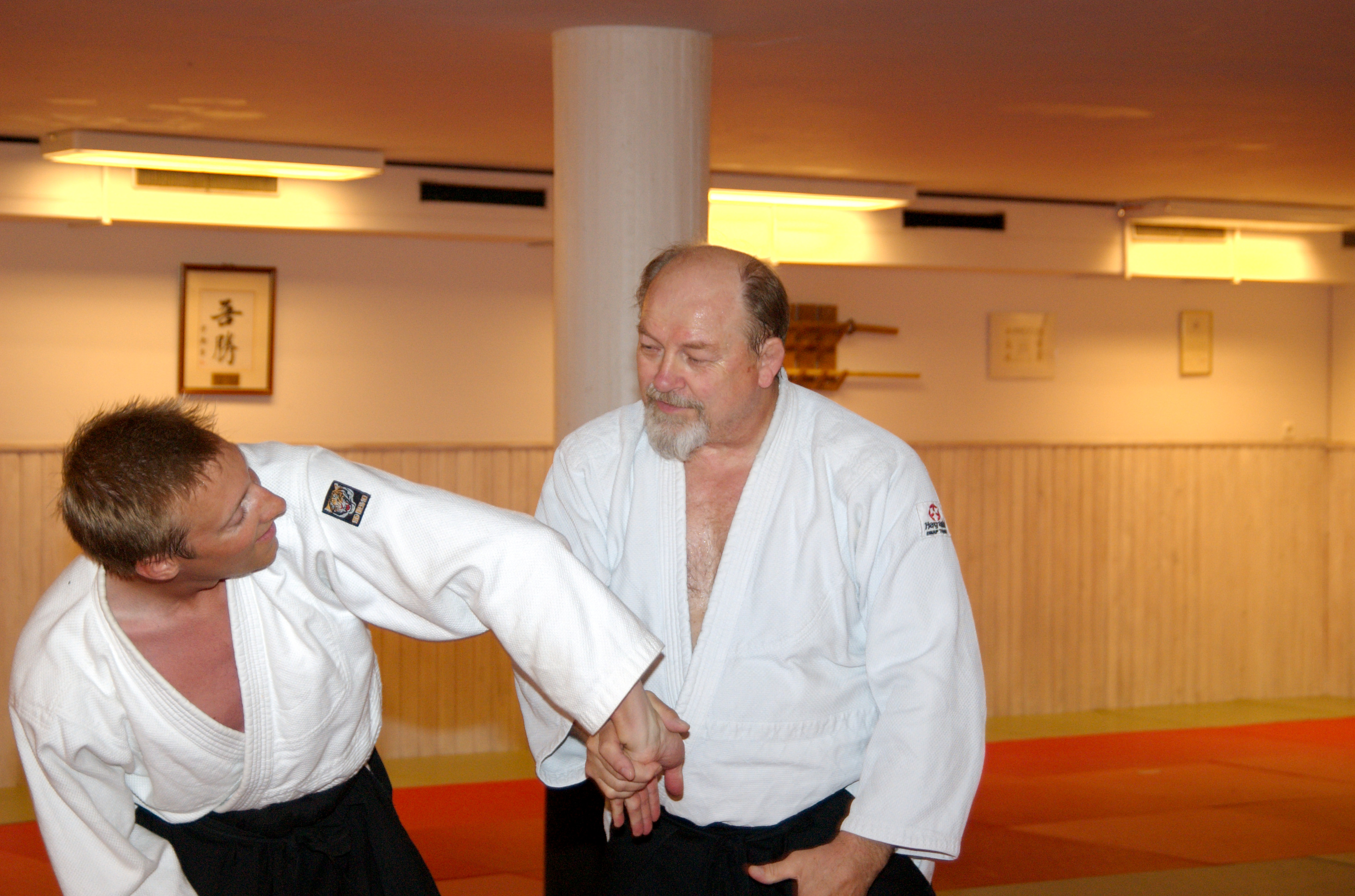 Jan Hermansson, 7 dan Aikido, instructing at Iyasaka Aikido